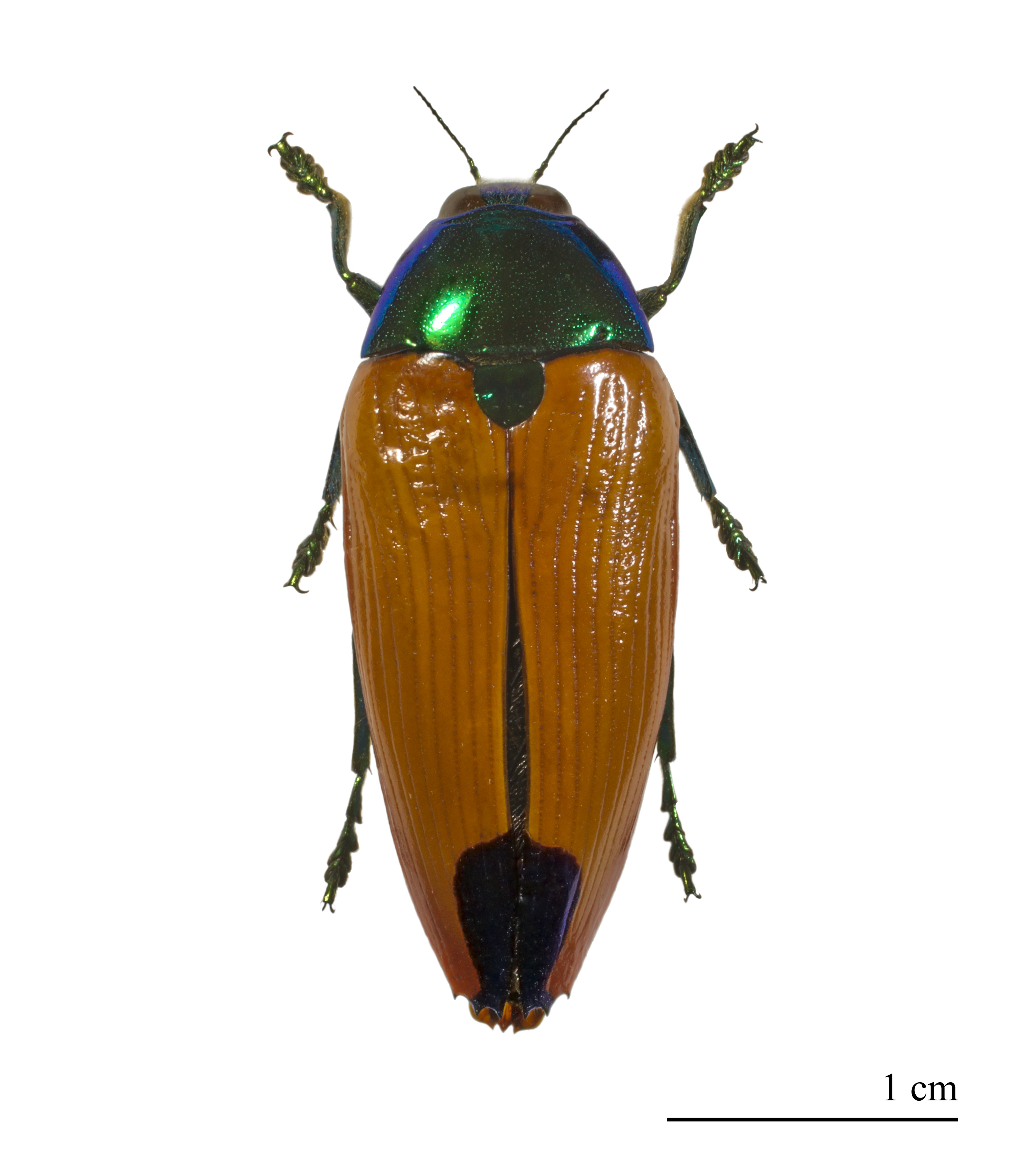 Male specimen Locality: Polly Creek, Garradunga , North Queensland, Australia